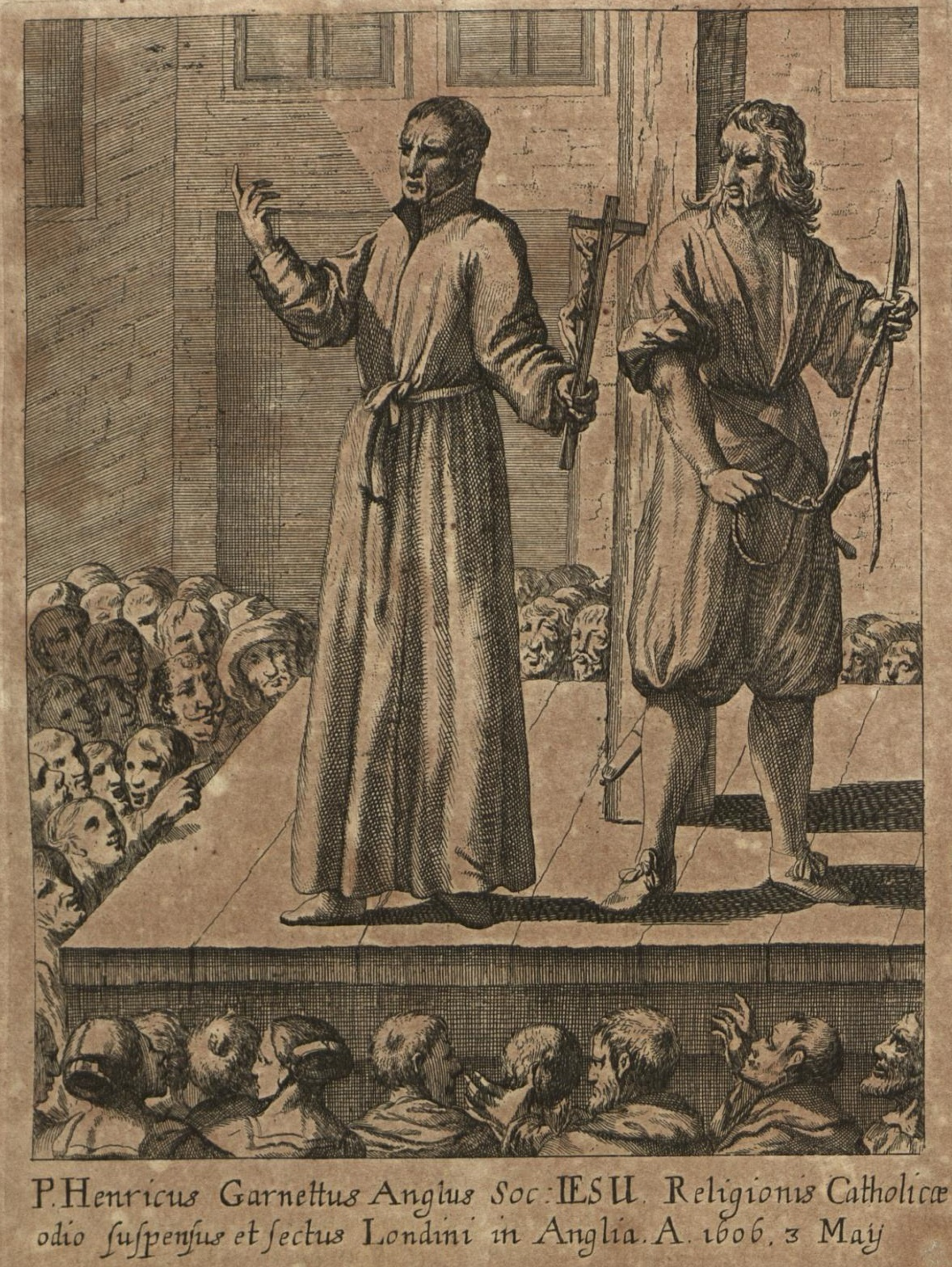 Illustration on page 66, depicting the hanging of Father Henricius Garnettus (Henry Garnet) in London on May 3, 1606.